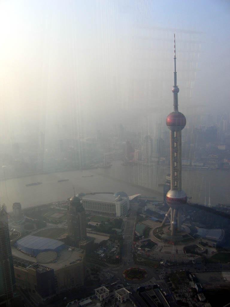 Oriental Pearl Tower as seen from the 88th floor of Jin Mao Tower.